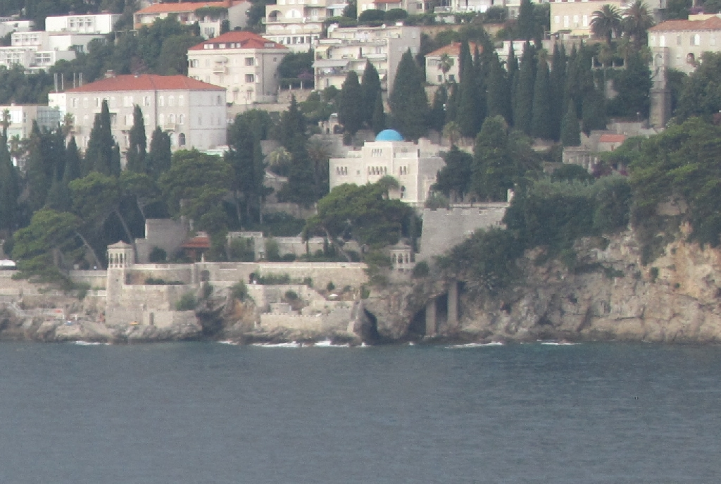 Villa Seherezada in Dubrovnik 2017